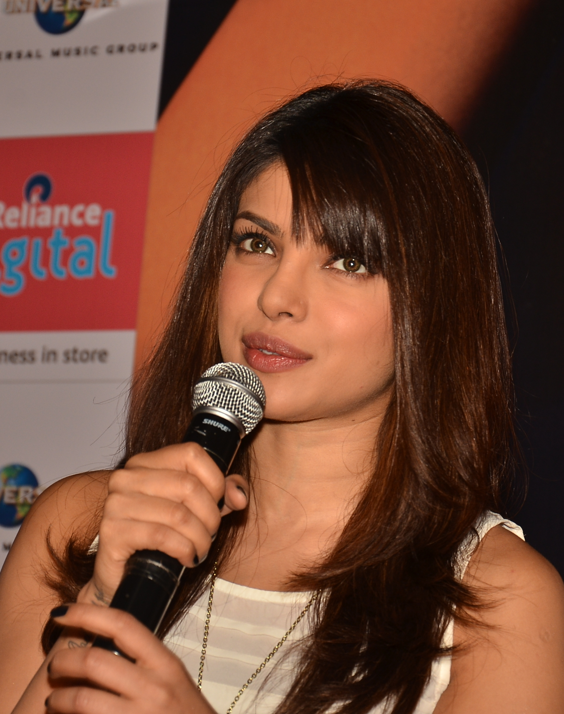 Priyanka Chopra at Reliance Digital Store to Promote her solo Album 'In my City' with the theme of spreading Happiness